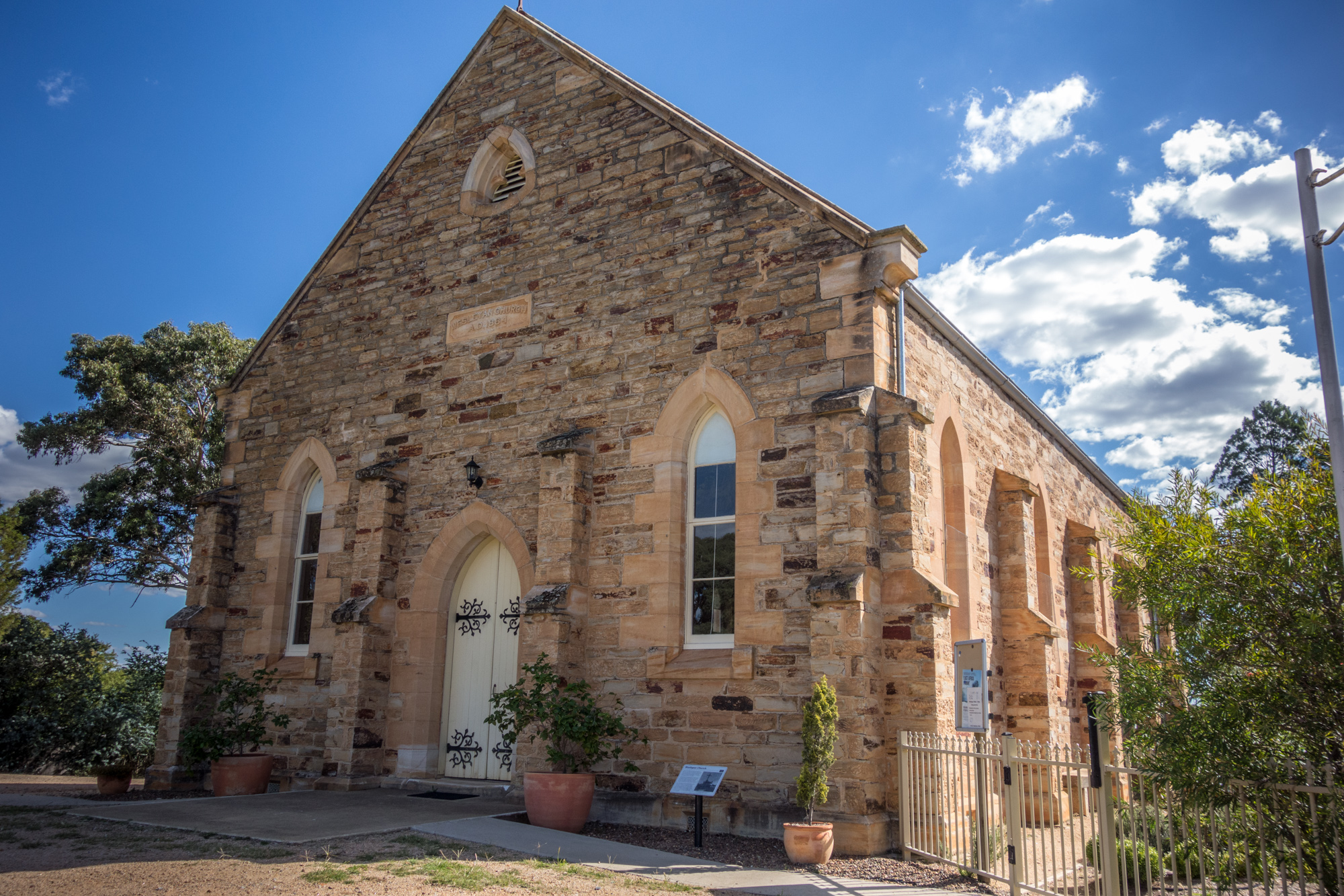 Wesleyan Church, 1884, Rylstone, NSW, Australia